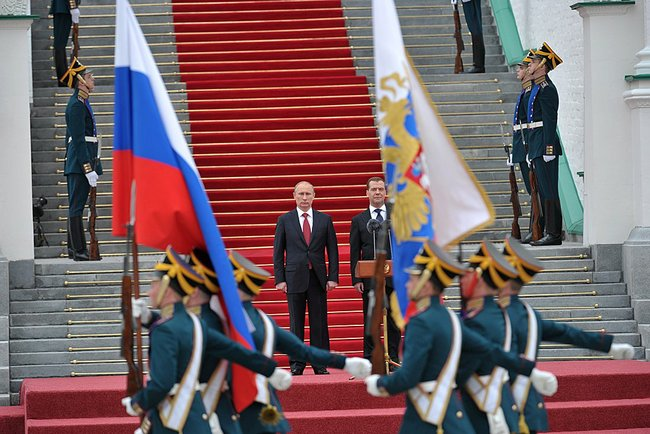 Review of the Presidential Regiment at Vladimir Putin's inaugration, 2012